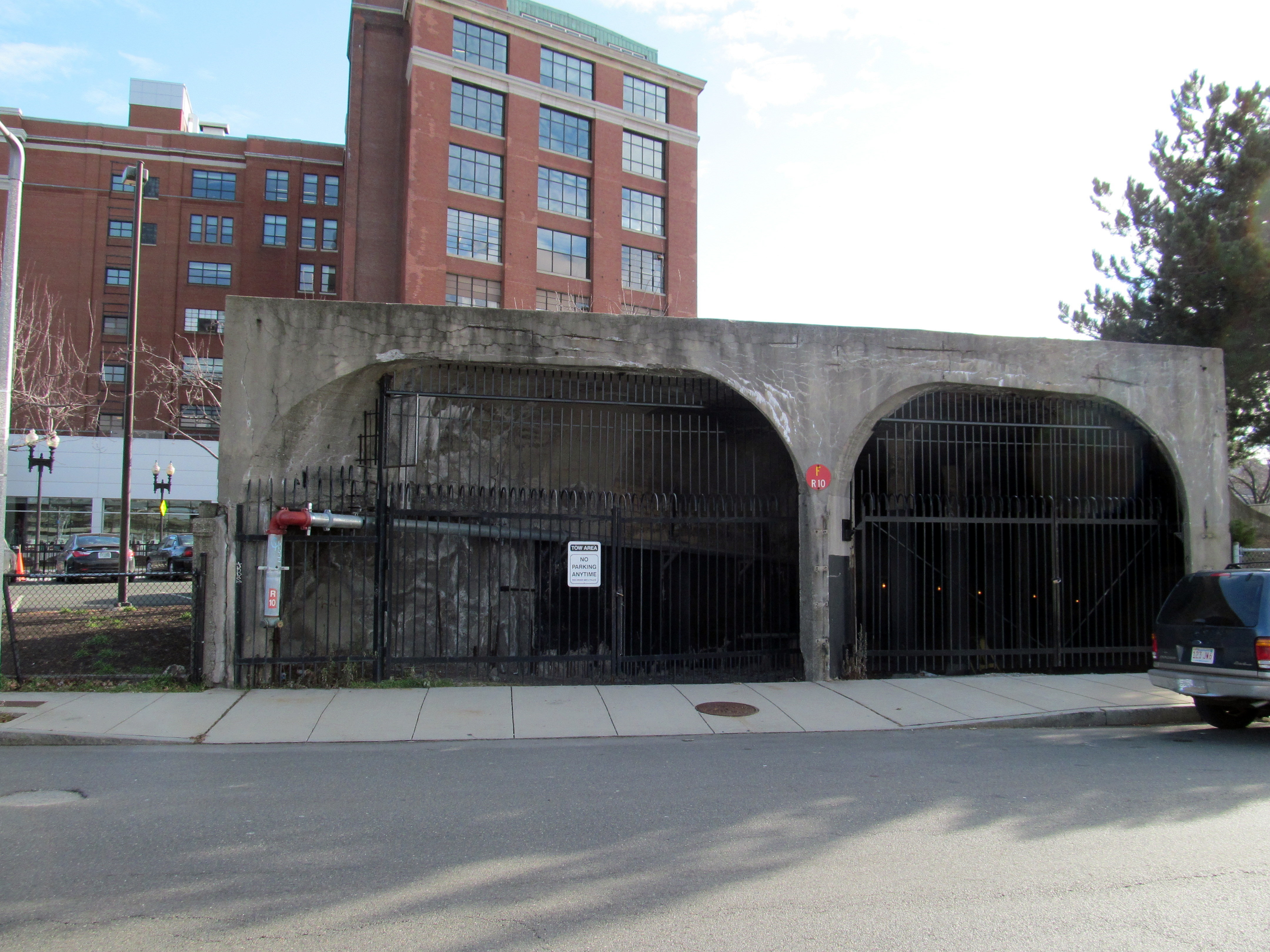 Foundry Street streetcar portal leading to Broadway station